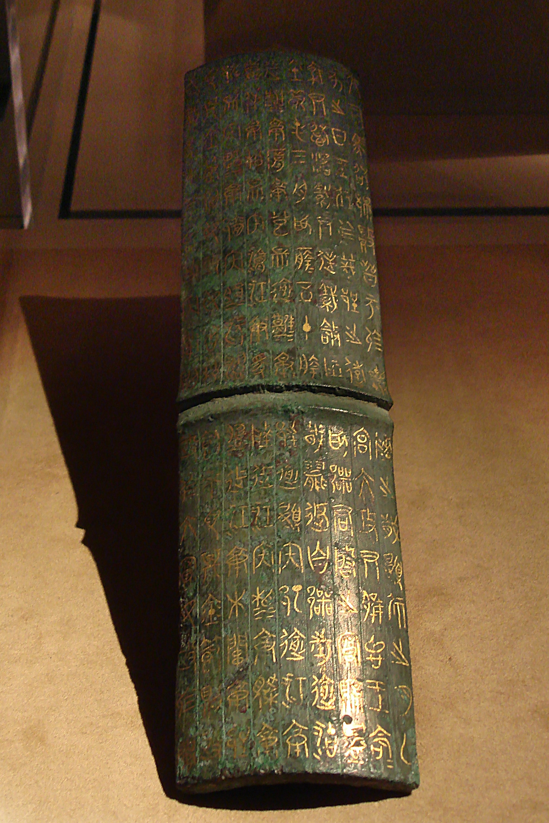 Bronze zhou jie with gold inlay. Warring States Period (475 - 221 B.C.) Excavated at Shou County, Anhui Province, 1957 This shou jie (shipping pass) was issued by the King of Chu to Prince Qi, Lord of E. Prefecture. Such permits, reserved for royalty and aristocrats, specified the kind and quantity of goods to be transported; they also stated tax exemptions and tariffs. Verification of its authenticity consisted of the perfectly fitted halves of a section of bamboo.